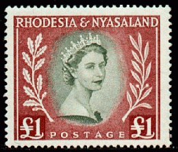 Low resolution image of a stamp issued by the Central African Federation, taken from